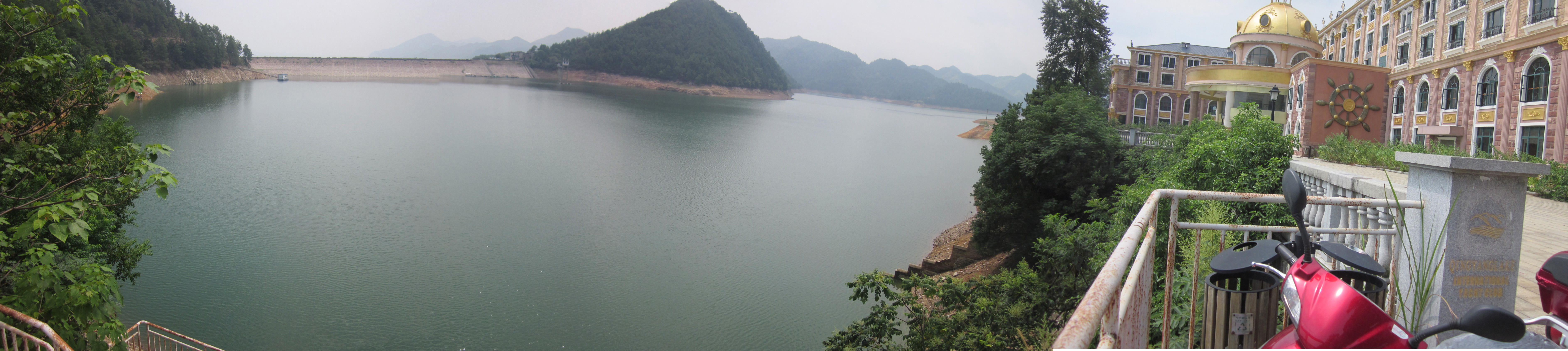 Huangcai Reservoir, is a large reservoir located in the western part of Ningxiang County in the province of Hunan, People's Republic of China.